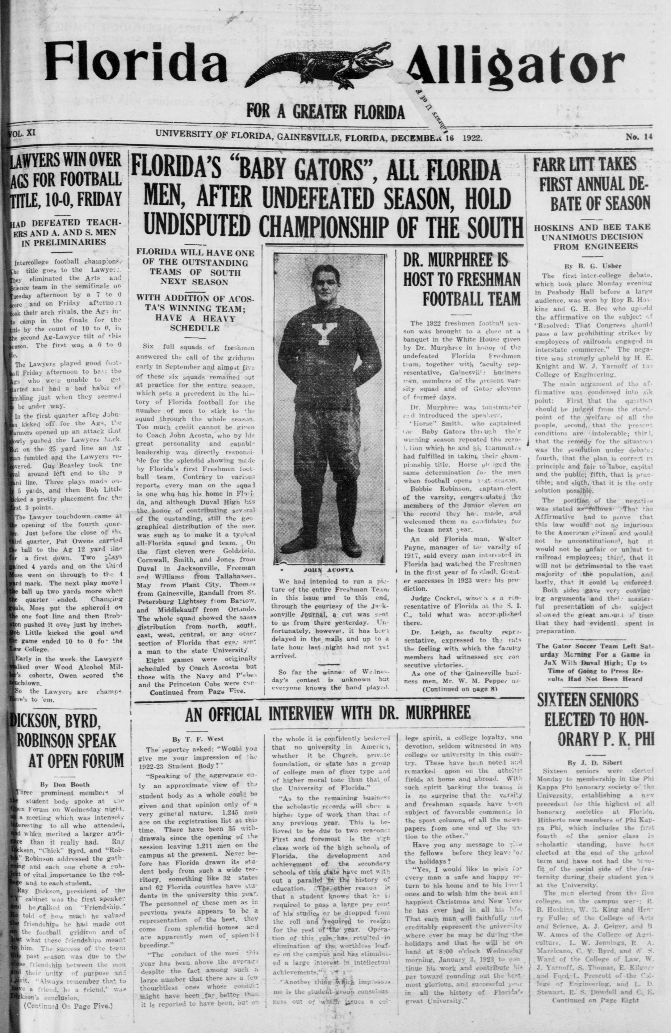 The front page of the Florida Alligator, the University of Florida's student newspaper, Vol. XI, Issue 14.